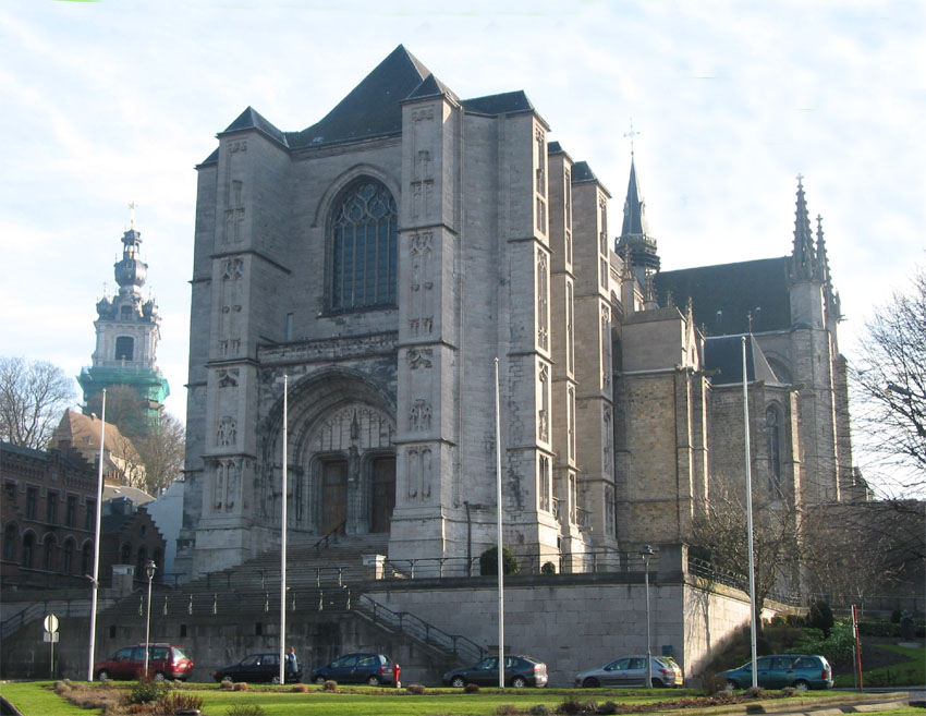 Mons (Belgium), the Sainte-Waudru collegiate church and the belfry (XV/XVIIth centuries).